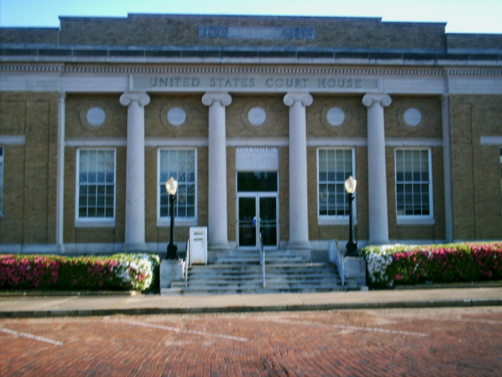 Sam B. Hall Federal Courthouse in Marshall, Texas. Photo taken by Jay Carriker.